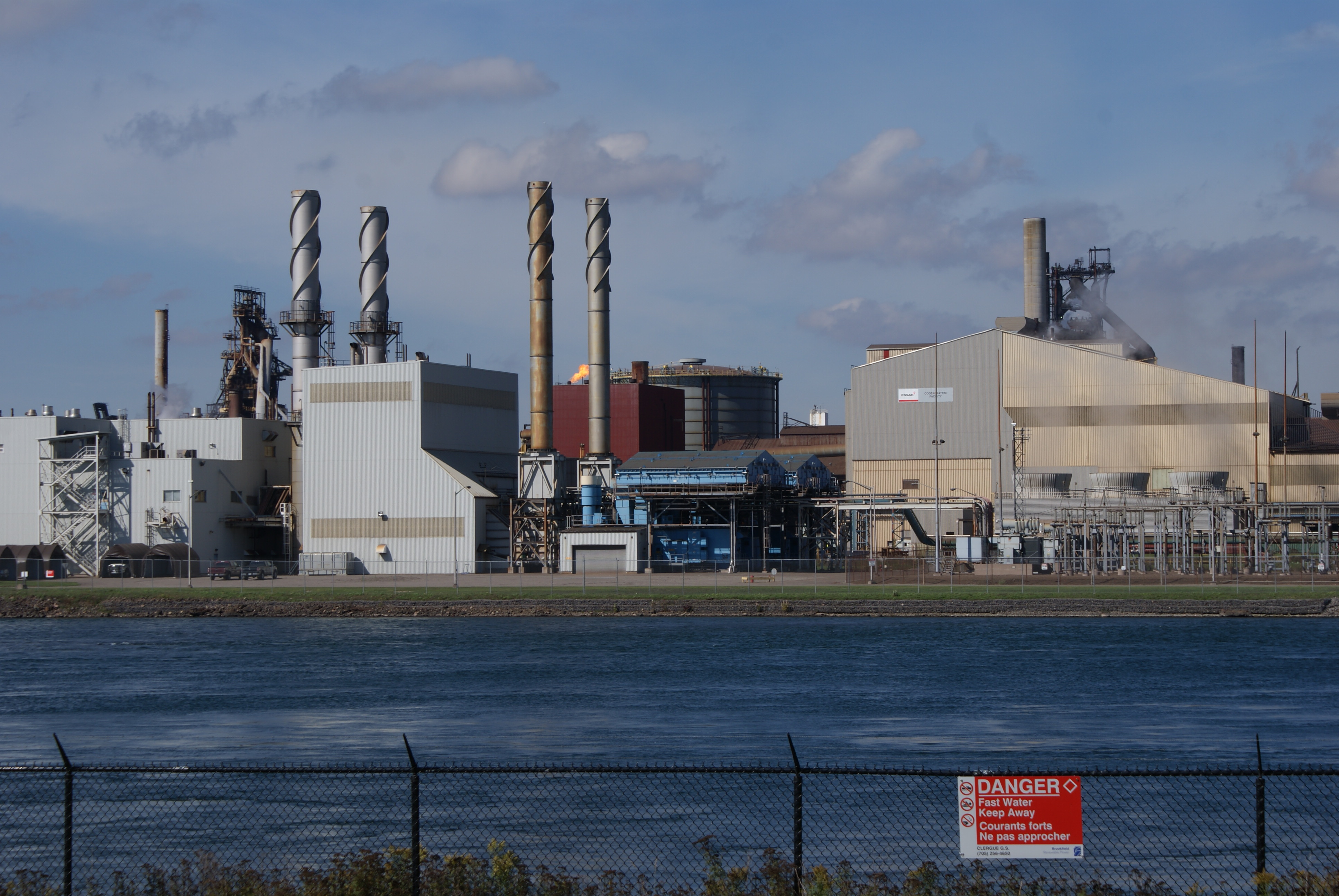 Steel factory in Sault Ste. Marie, Ontario.